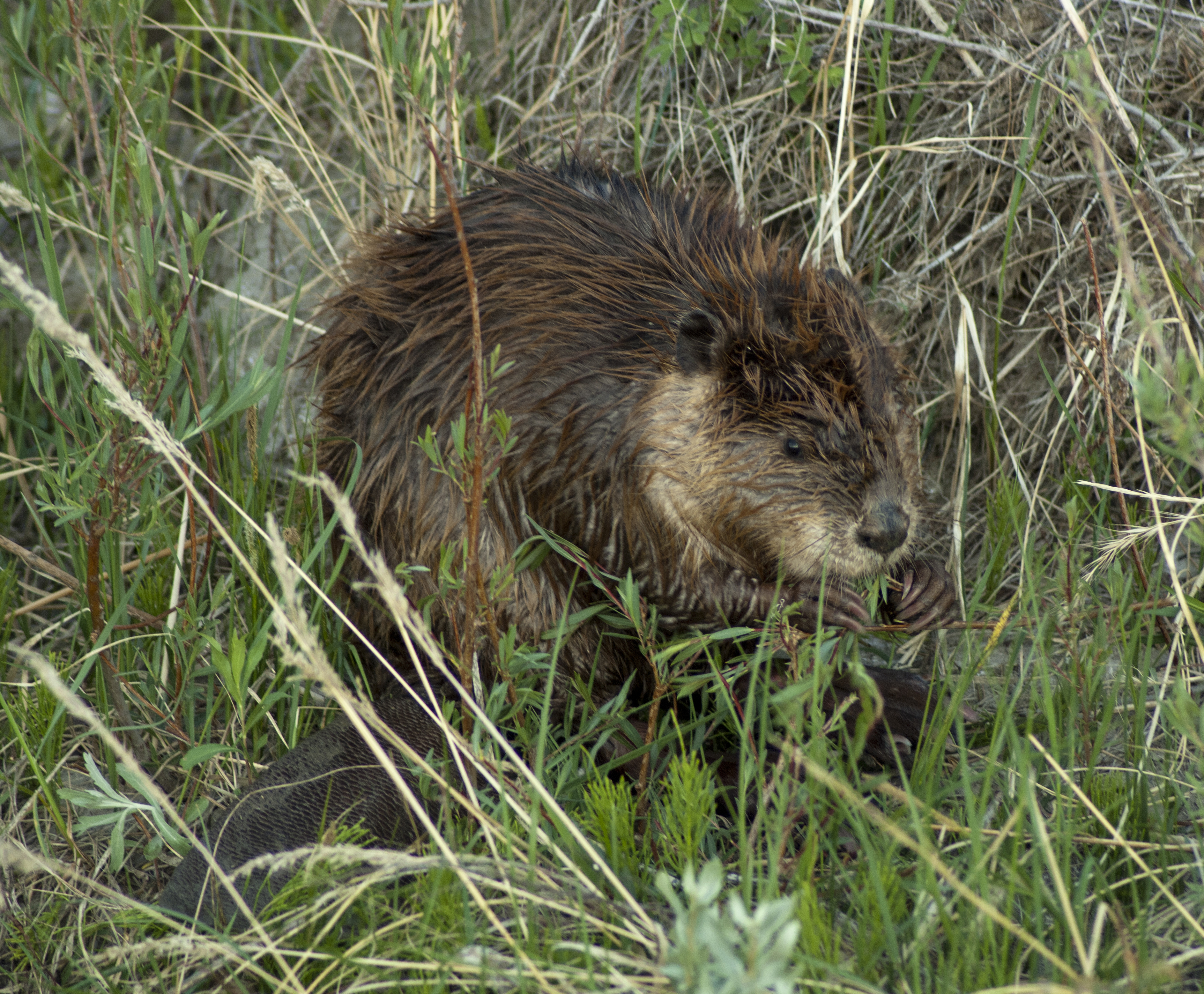 Castor canadensis in Dinosaur Provincial Park, Alberta